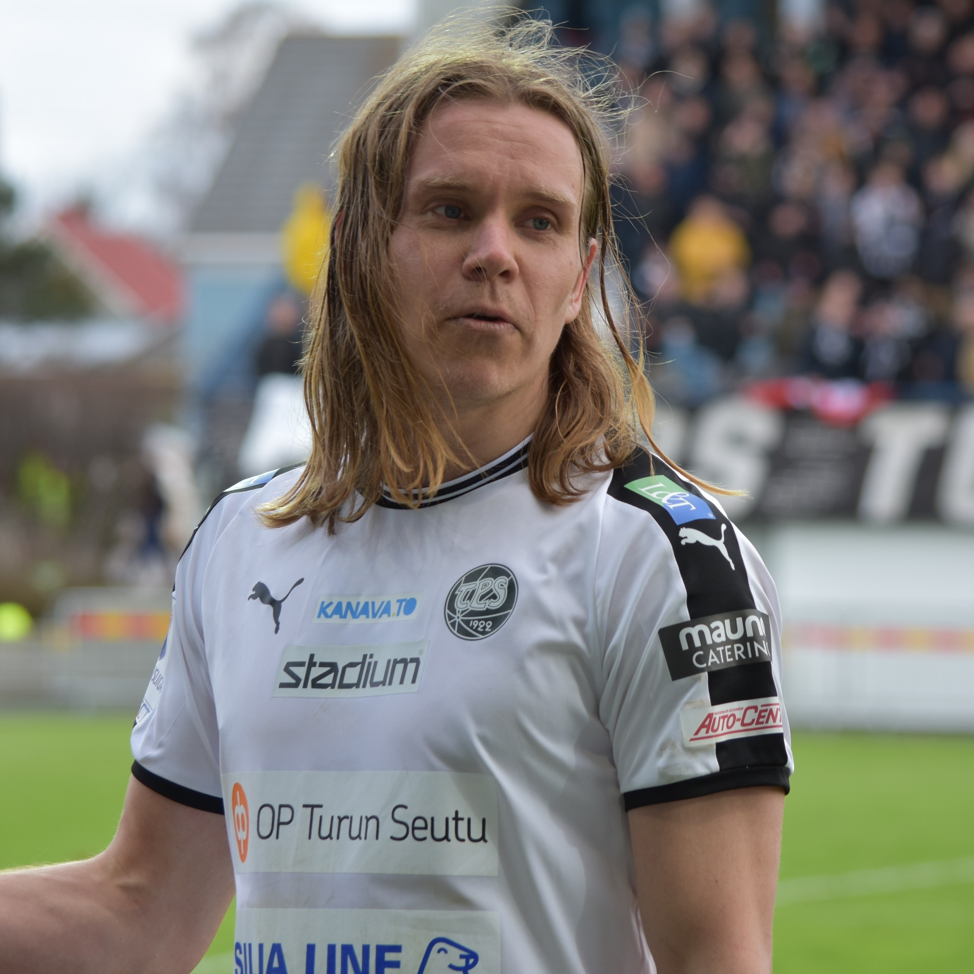 Football player Mika Ääritalo (TPS)